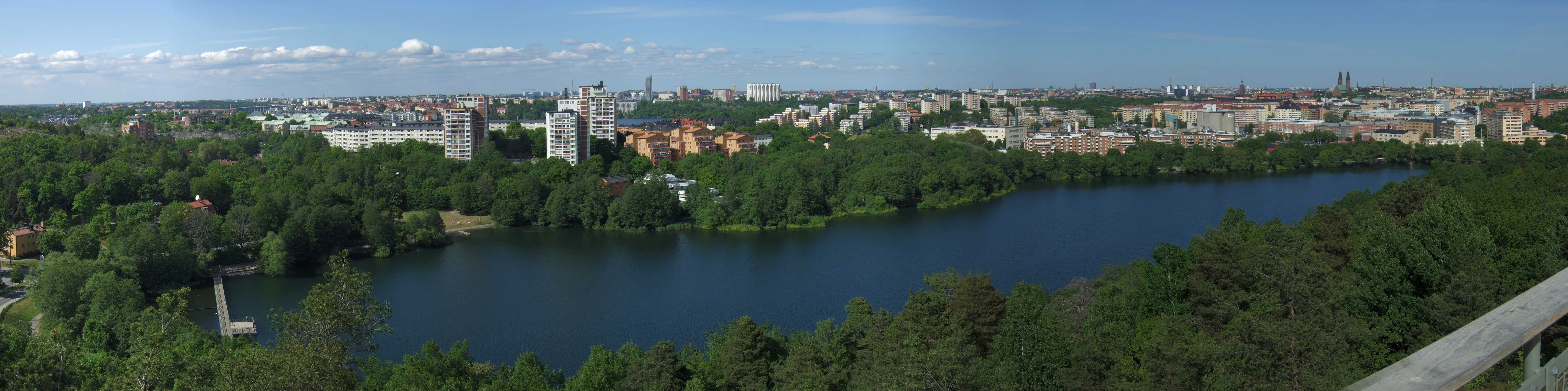 Lake Trekanten, a lake south of Stockholm, Sweden